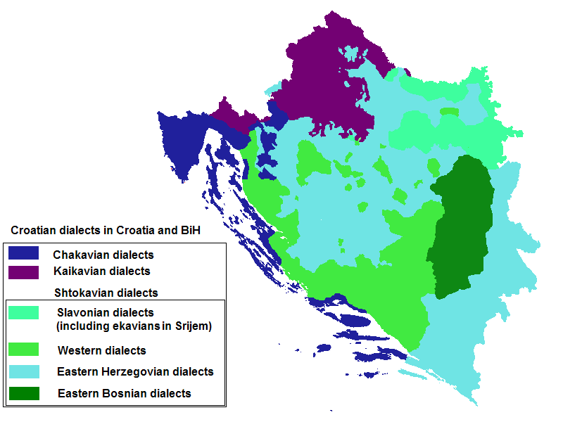 Map showing 4 main dialects of Croatian Shtokavian dialect in Cro and BiH (Map also shows Chakavian and Kaikavian areas).